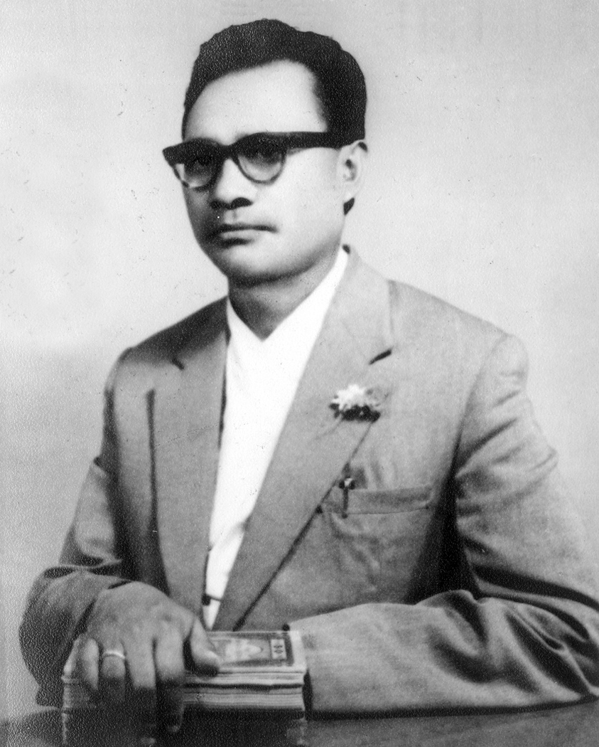 Dharma Ratna Yami was a freedom fighter and former deputy minister of Nepal.